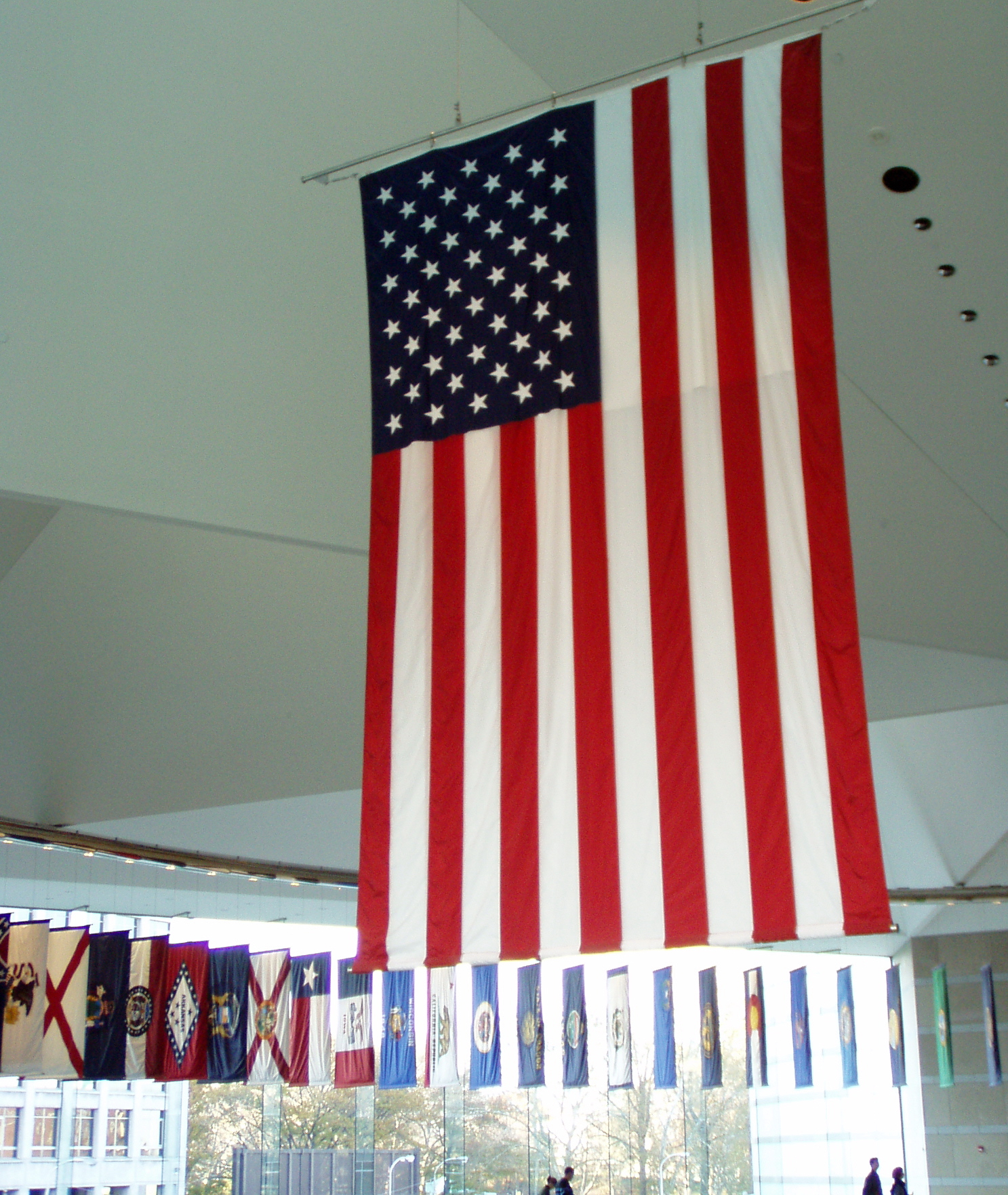 Taken in Philadelphia, Pennsylvania, in September 2003. A large U.S. flag hangs in the center of the National Constitution Center, surrounded by the various state flags.